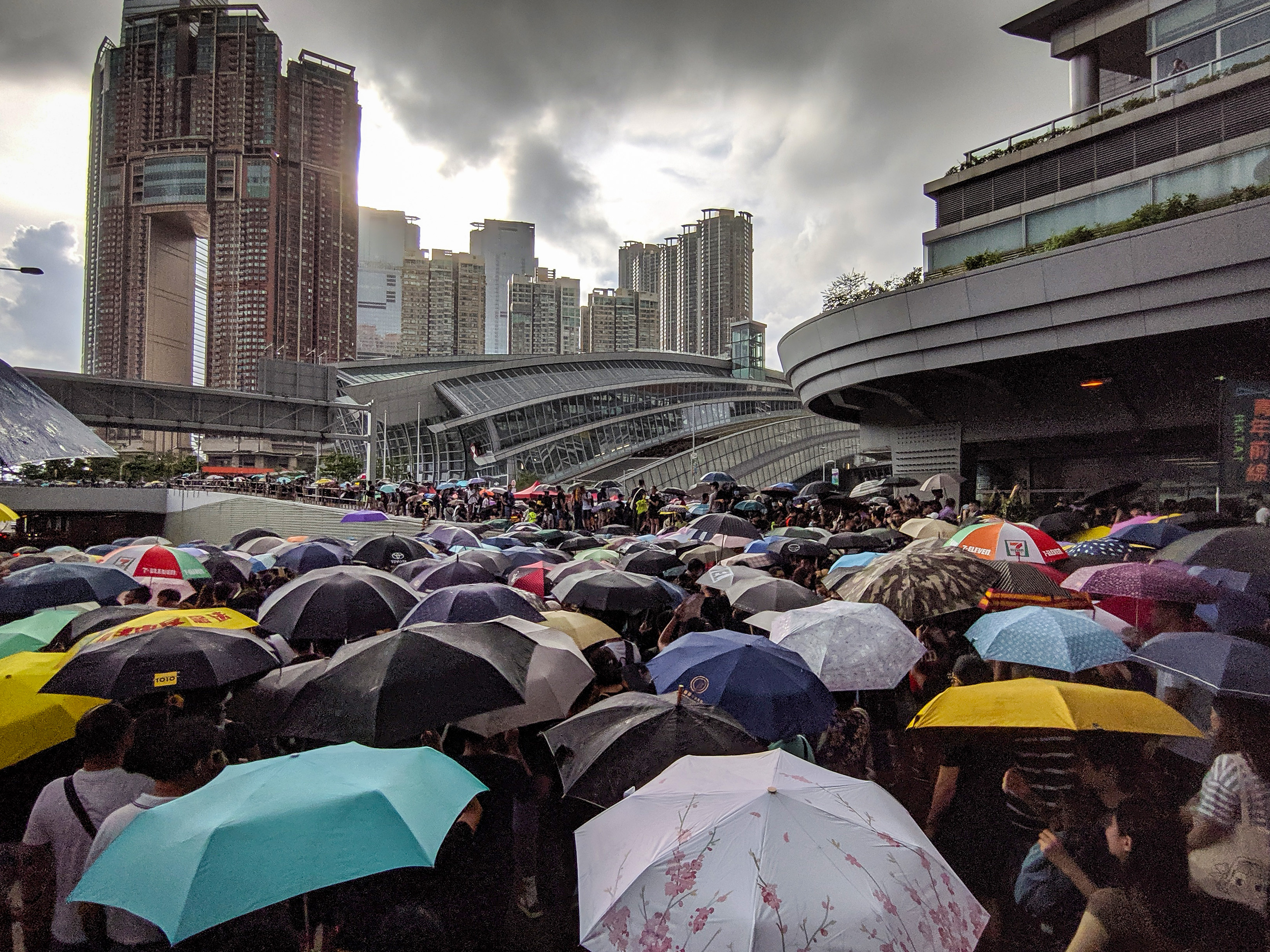 2019 Hong Kong anti-extradition law protest on 7 July 2019 in Tsim Sha Tsui, captured by Studio Incendo from Flickr.